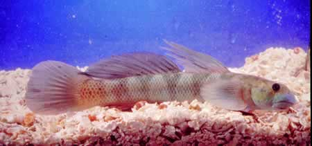 The Olivo (aka, Ceti) fish. (English name: Sirajo Goby) (Taxonomy: Sicydium plumieri)